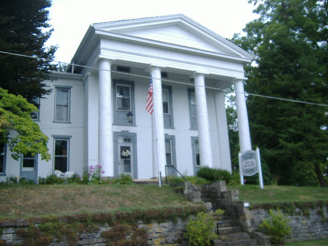 The Bailey-Thompson house located at 112 N. Water St. in Georgetown, Ohio.